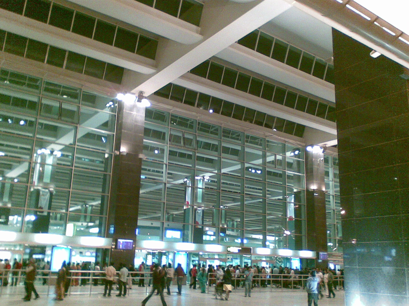 The BIA terminal from curbside